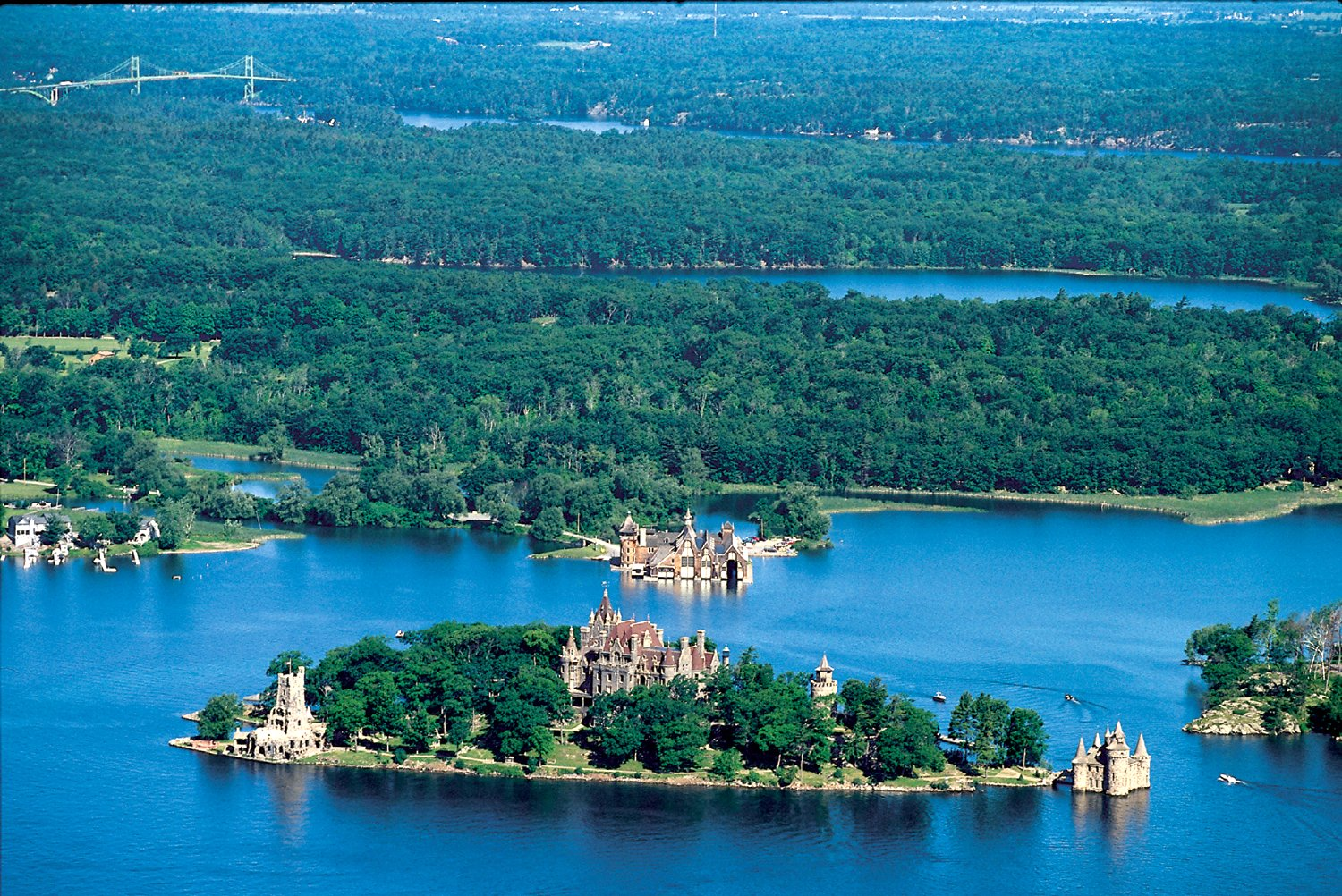 Aerial view of Boldt Castle and some of the Thousand Islands in the Saint Lawrence River.